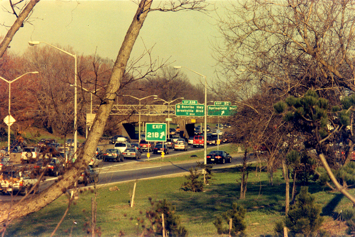 The Belt Parkway at Farmers Boulevard in Springfield Gardens, Queens.